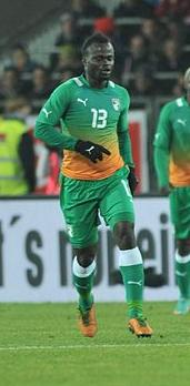 ÖFB freundschaftliches Länderspiel - Österreich vs Elfenbeinküste am 14. November 2012 The making of this work was supported by Wikimedia Austria. For other files made with the support of Wikimedia Austria, please see the category Supported by Wikimedia Österreich. 3: Aleksandar Dragović